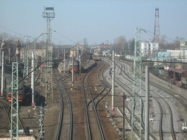 Railway Moscow - Sankt-Peterburg in Tver